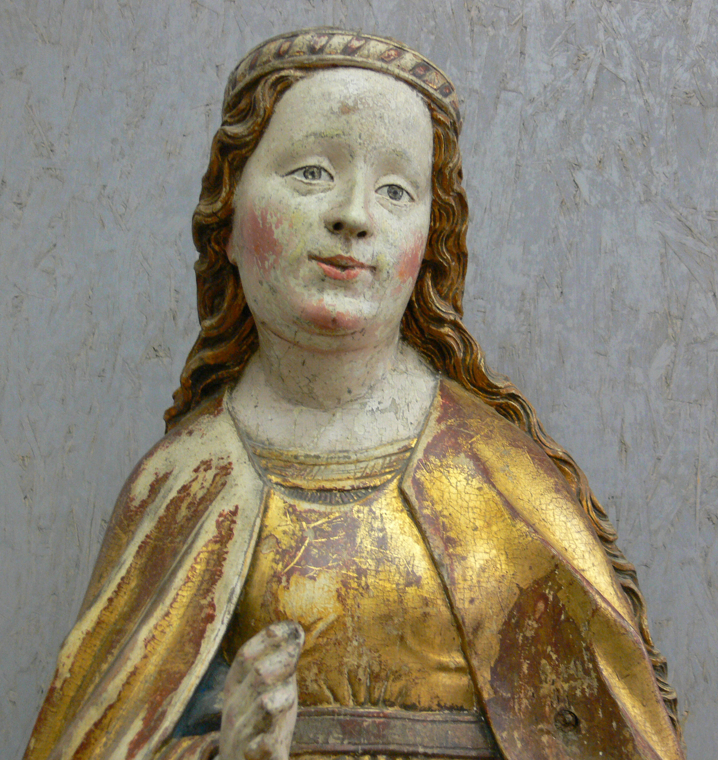 Workshop of Jakob Russ: Holy Virgin (?), Ravensburg c. 1480; limewood, with original colours Württembergisches Landesmuseum Stuttgart; Inv. 1962-12 (bought 1962 from a Zurich art dealer, allegedly from America)